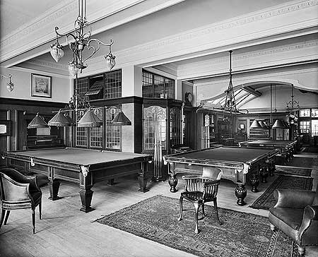 View at show room at Thurston's Hall (later Leicester Square Hall, demolished 1956)